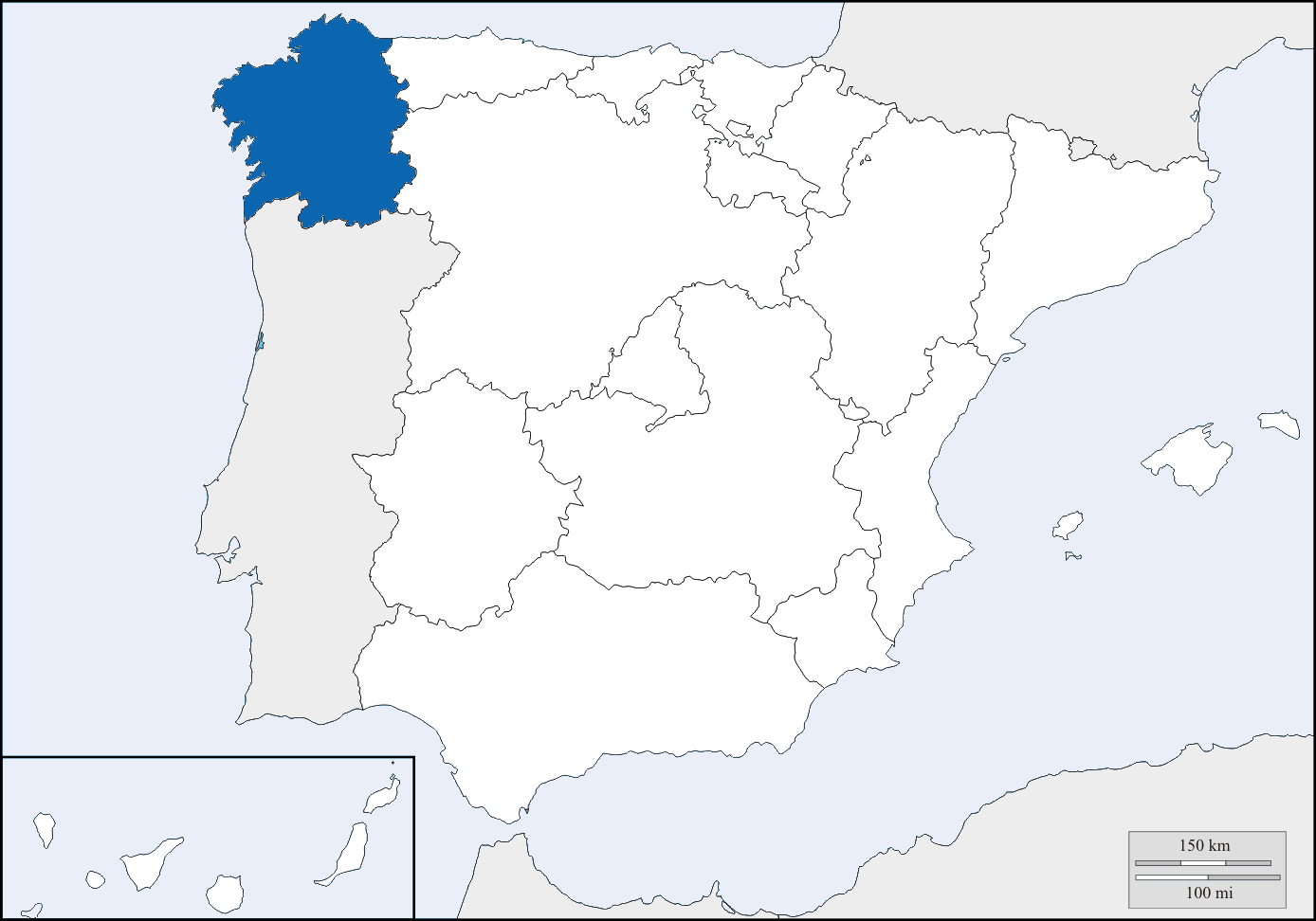 Location of Galicia within Spain.